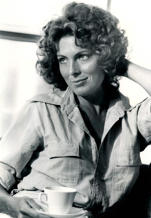 Actress Joanna Cassidy in 1974